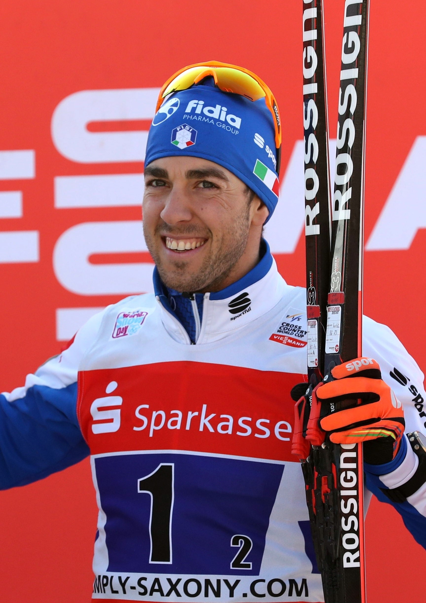 Award Ceremonies of the Team Sprint at the FIS Cross-Country World Cup Dresden 2018: Federico Pellegrino